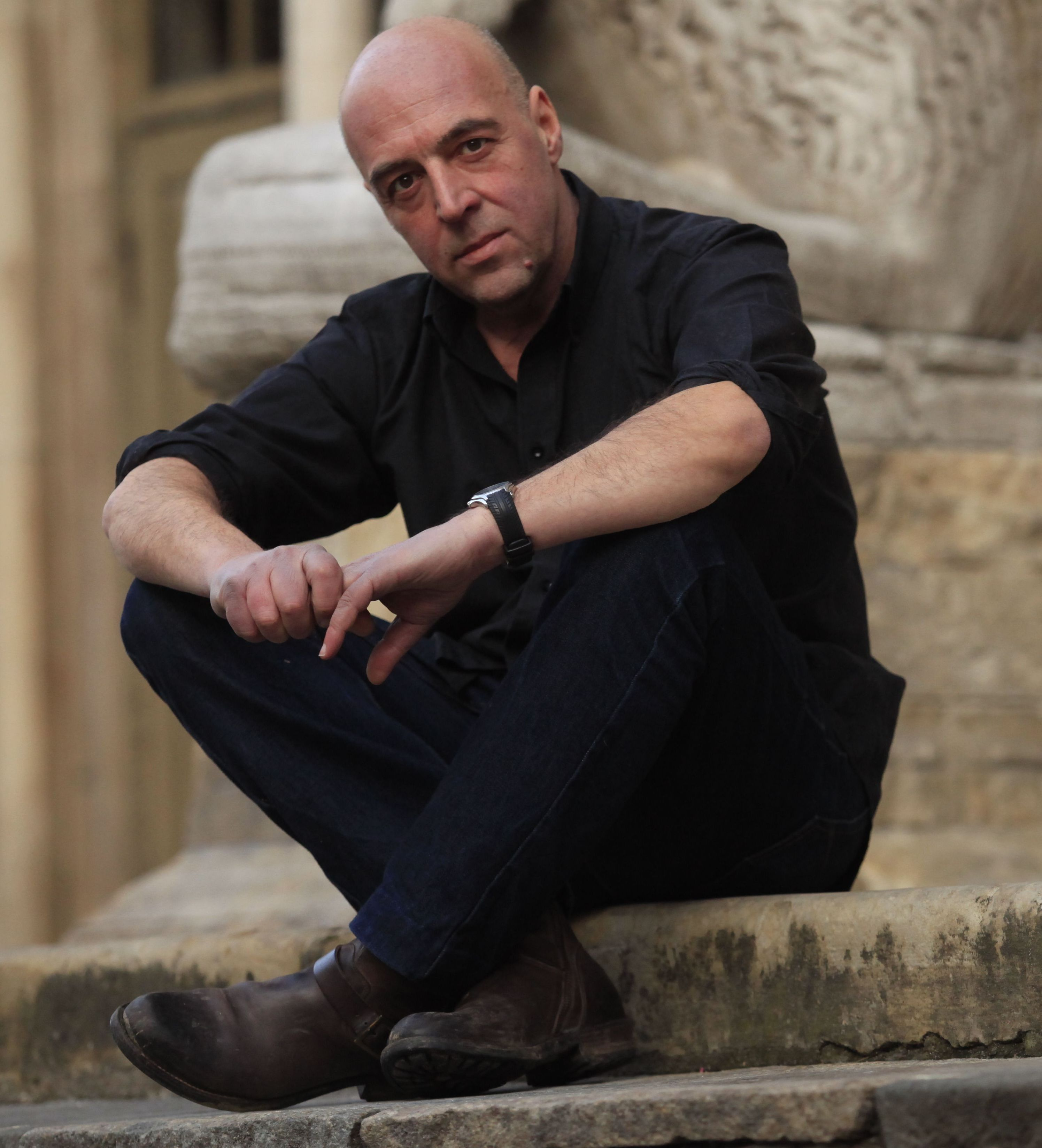 Ade Capone